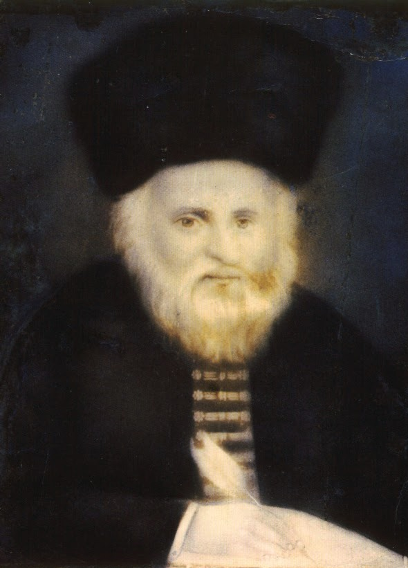 Vilna Goan, see File:Vilna Gaon authentic portrait.JPG